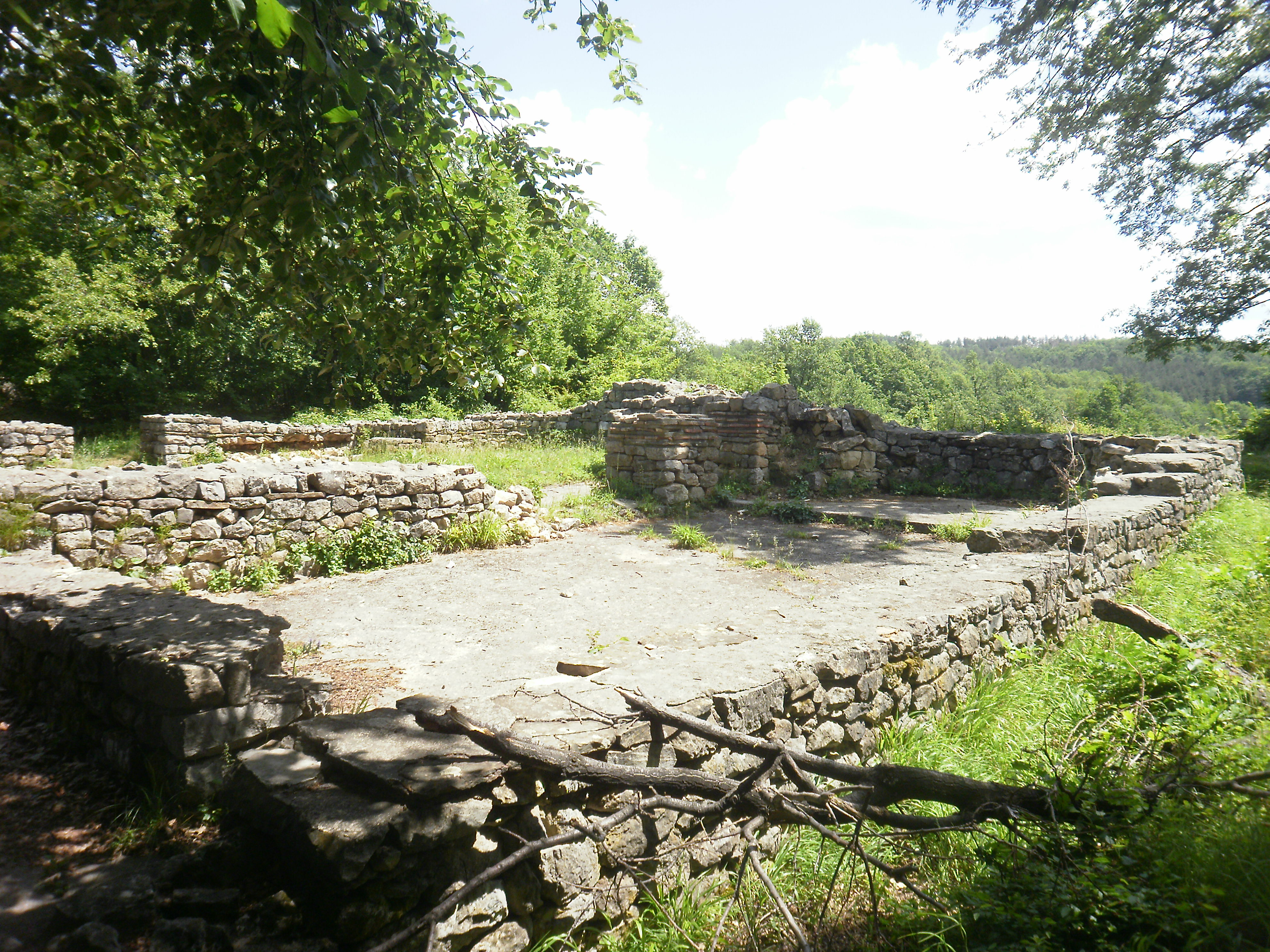 Gradishte Fortress, Gabrovo, Bulgaria